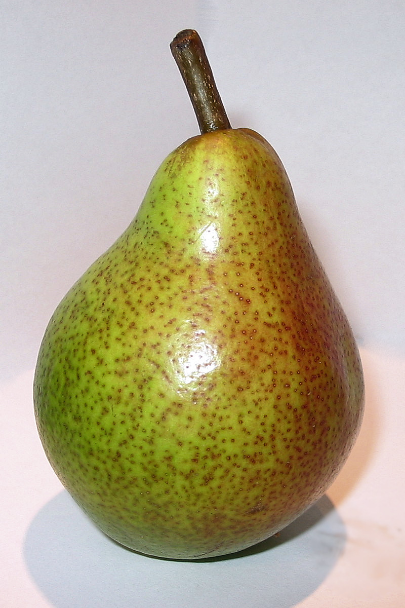 Pear